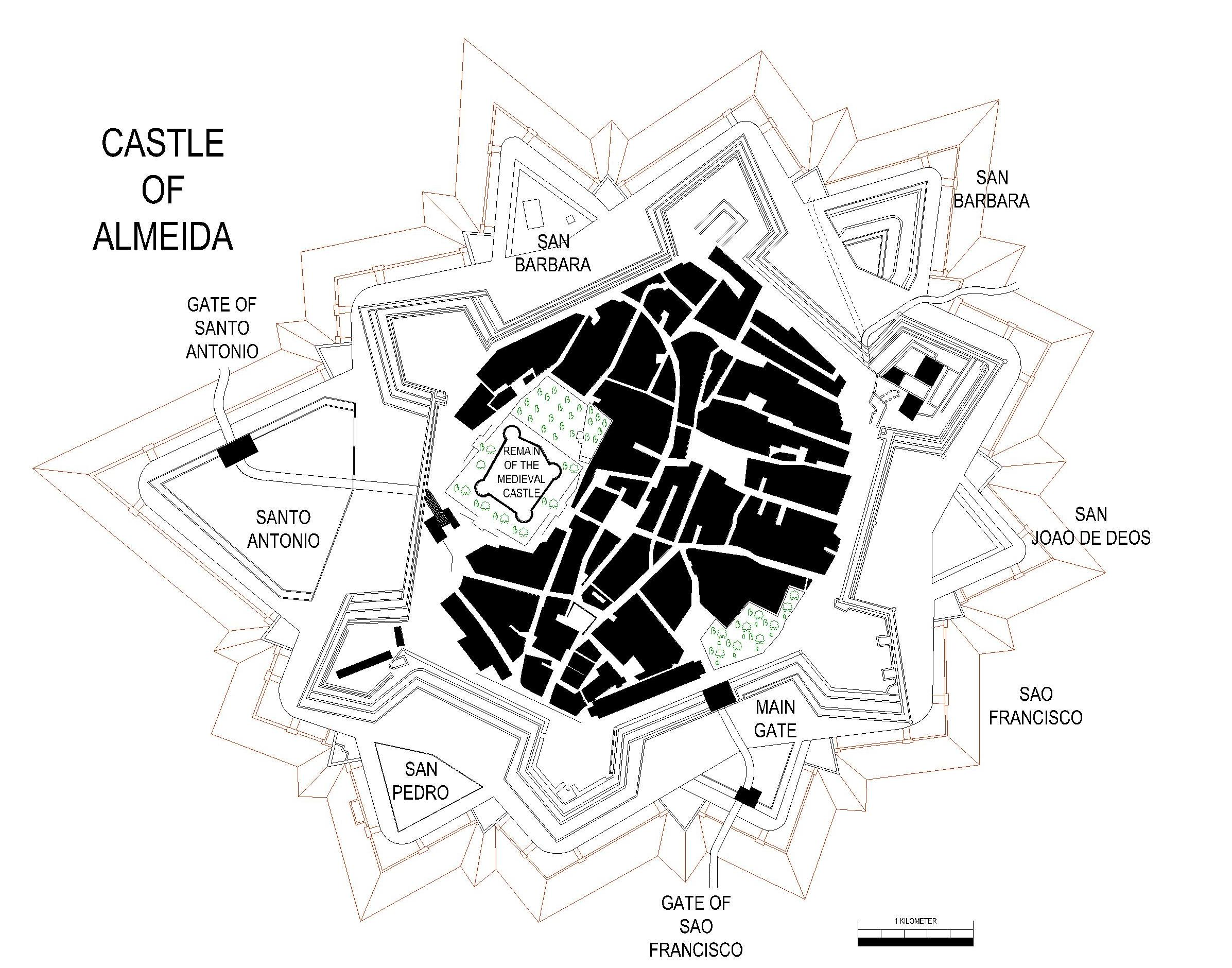 The Star Fortress of Almeida in Portugal